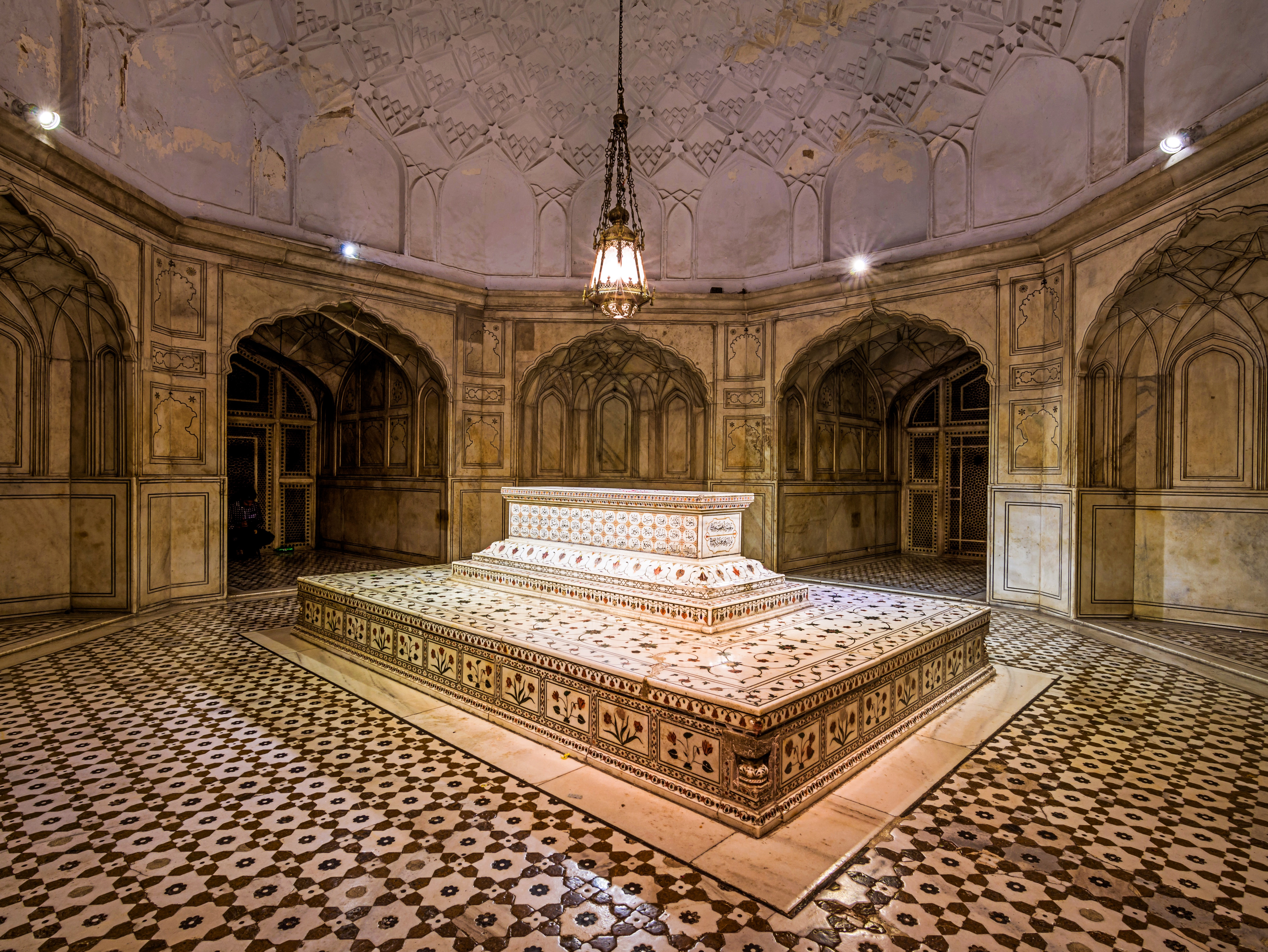 Jahangir’s Tomb and compound This is a photo of a monument in Pakistan identified as the PB-64